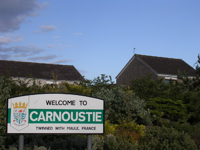 Welcome to Carnoustie. The sign at the western approach to Carnoustie on the A930